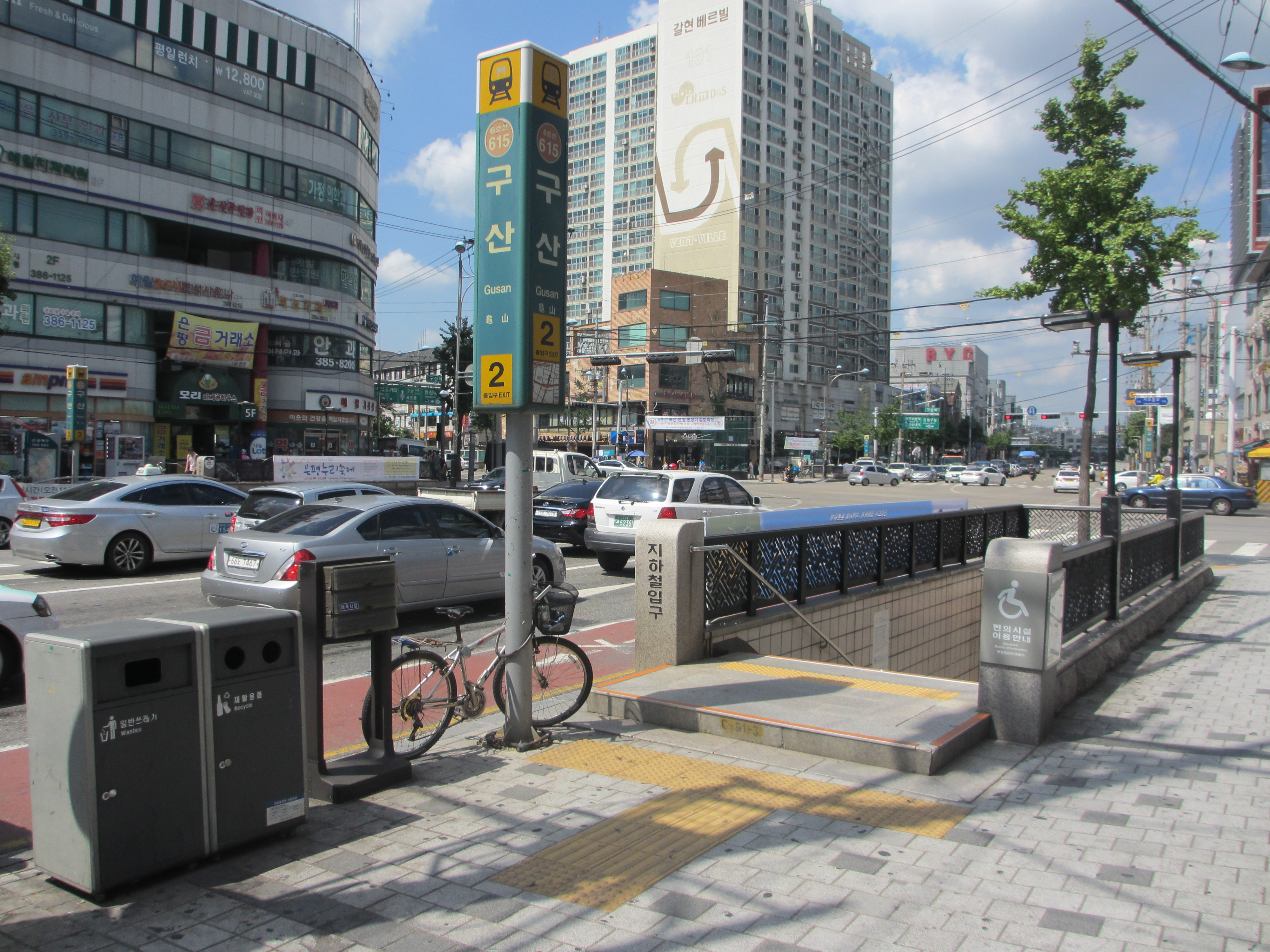 Gusan Station Exit 2.